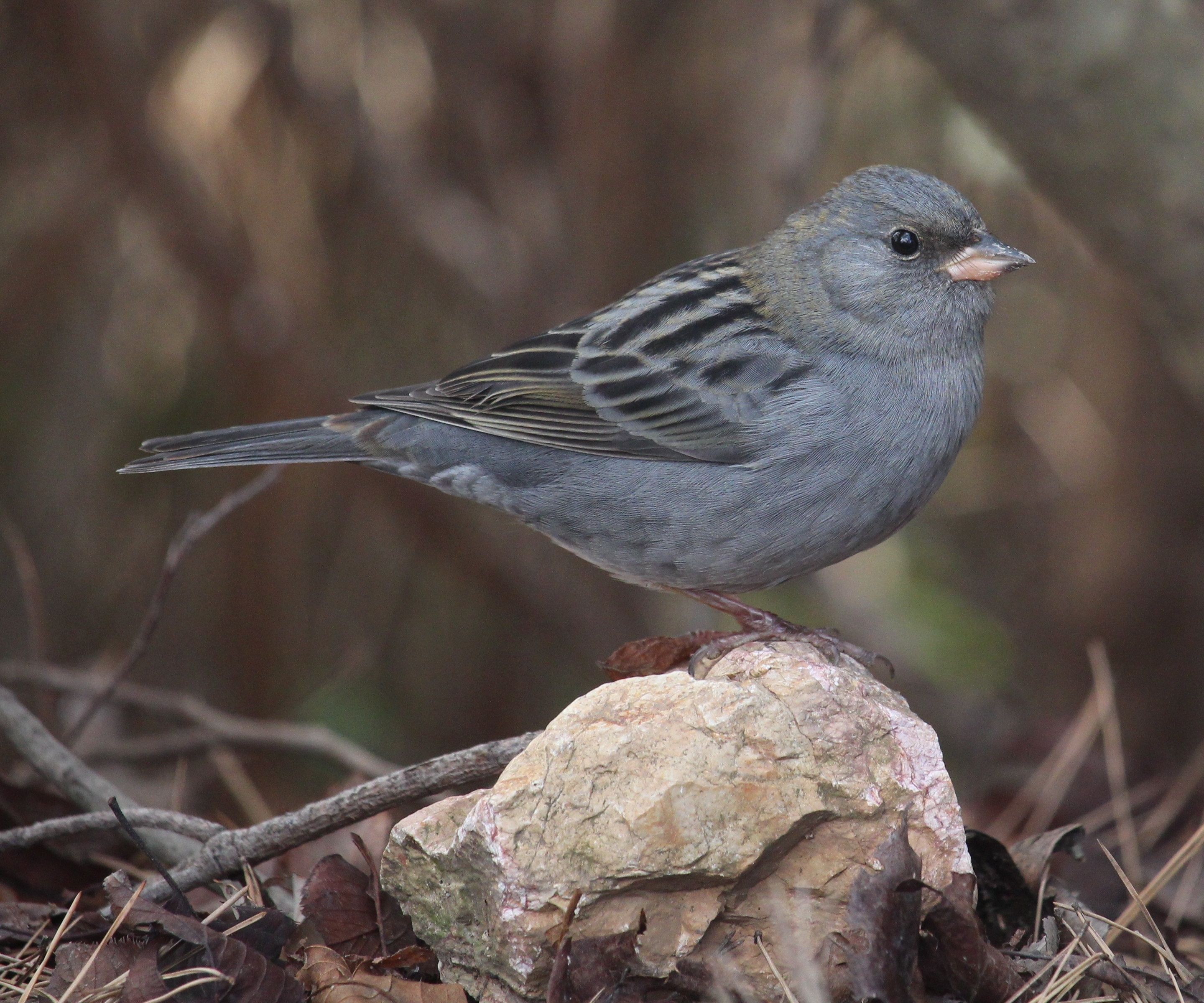 Grey Bunting (Emberiza variabilis), male, in Aichi prefecture, Japan.